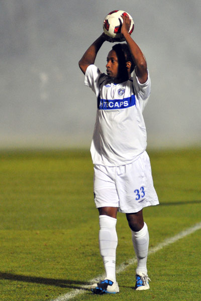 Photo of soccer player, Willis Forko.